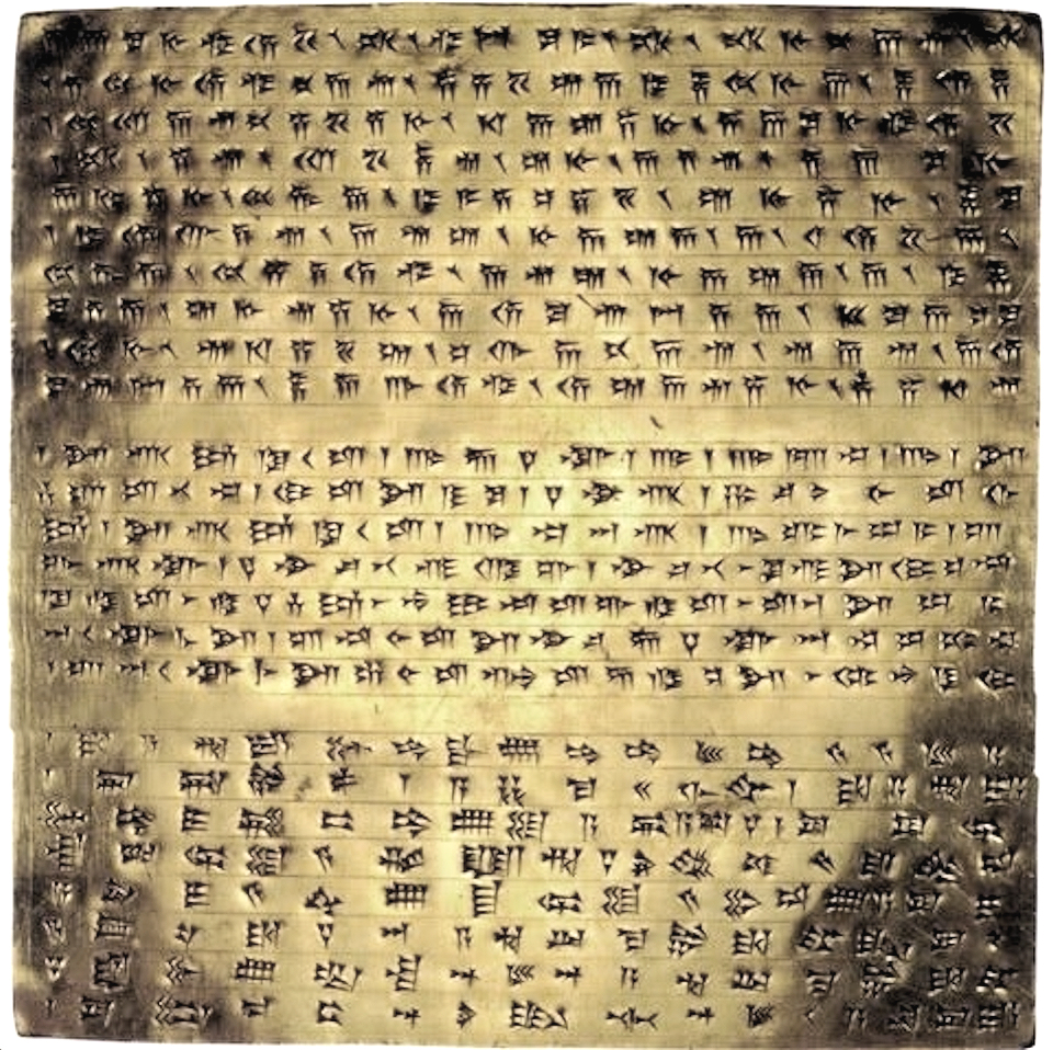 Deposition plate of Darius I in Persepolis. Also described here